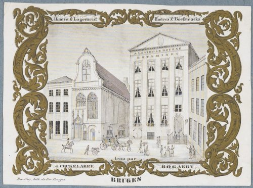 Porcelain print by E. Daveluy